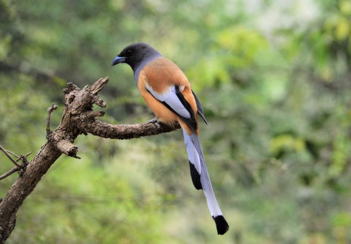 Rufous-Treepie_bird